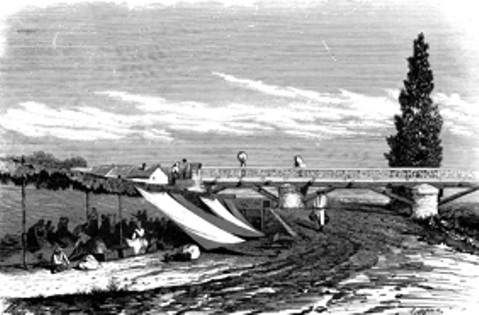 Verde Bridge over Manzanares River, Madrid, Spain.